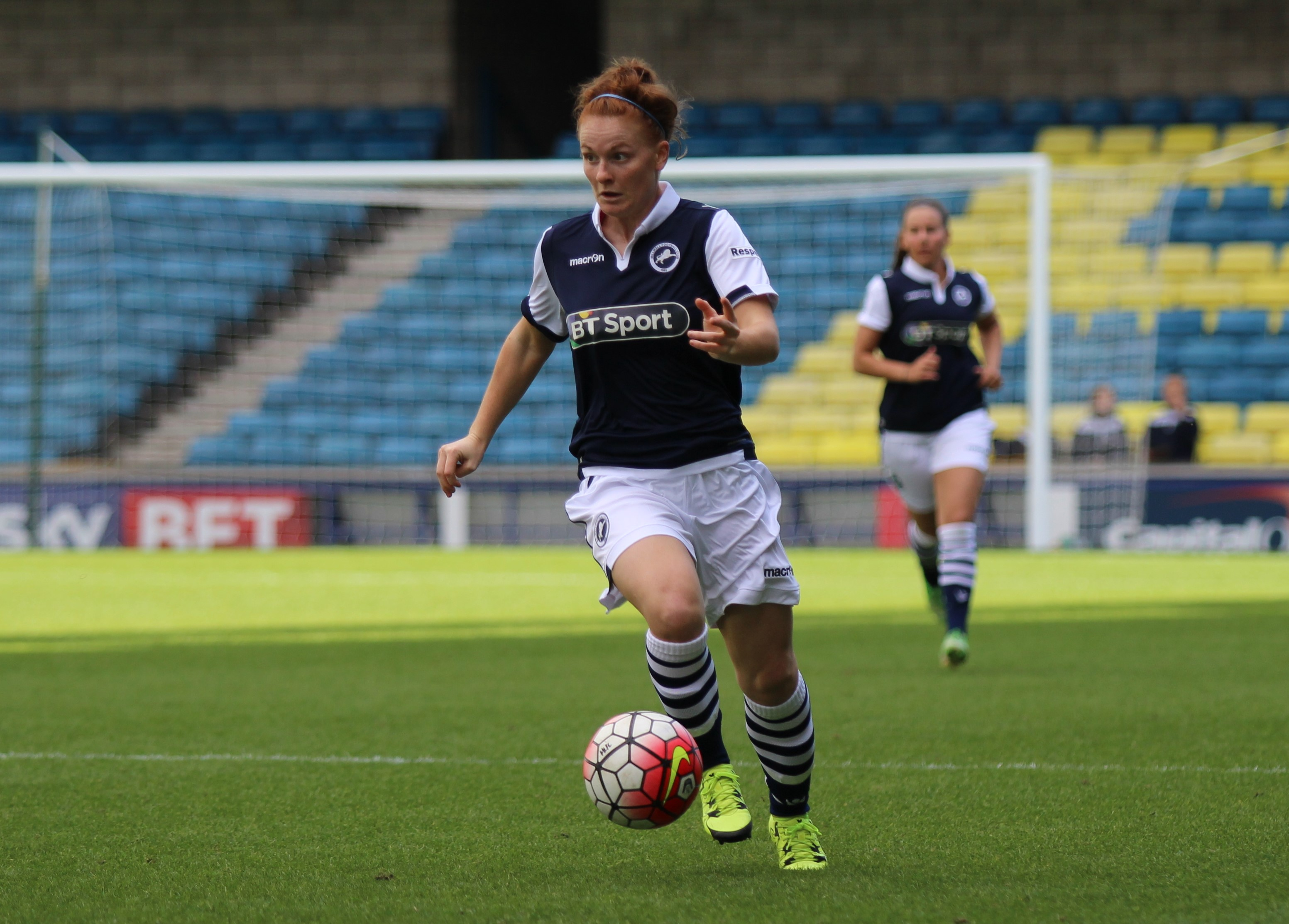 Fliss Gibbons of Millwall Lionesses on the ball during the game against Aston Villa.